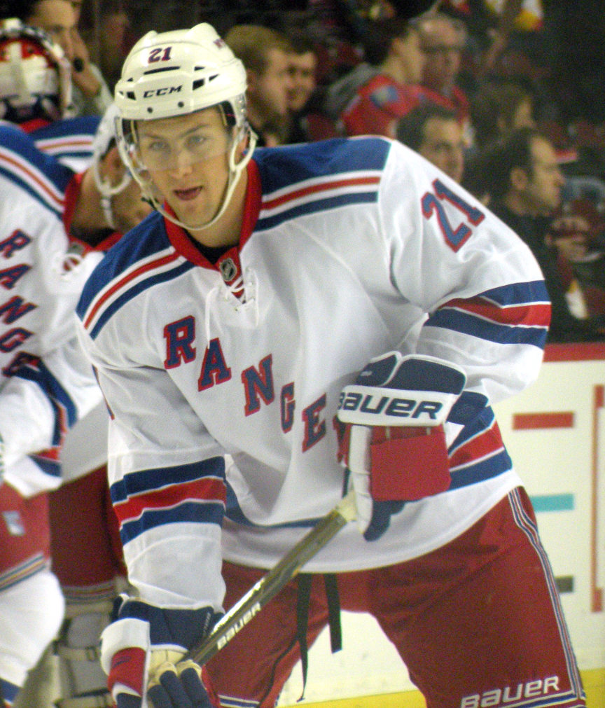 New York Rangers forward Derek Stepan prior to a National Hockey League game against the Calgary Flames, in Calgary.